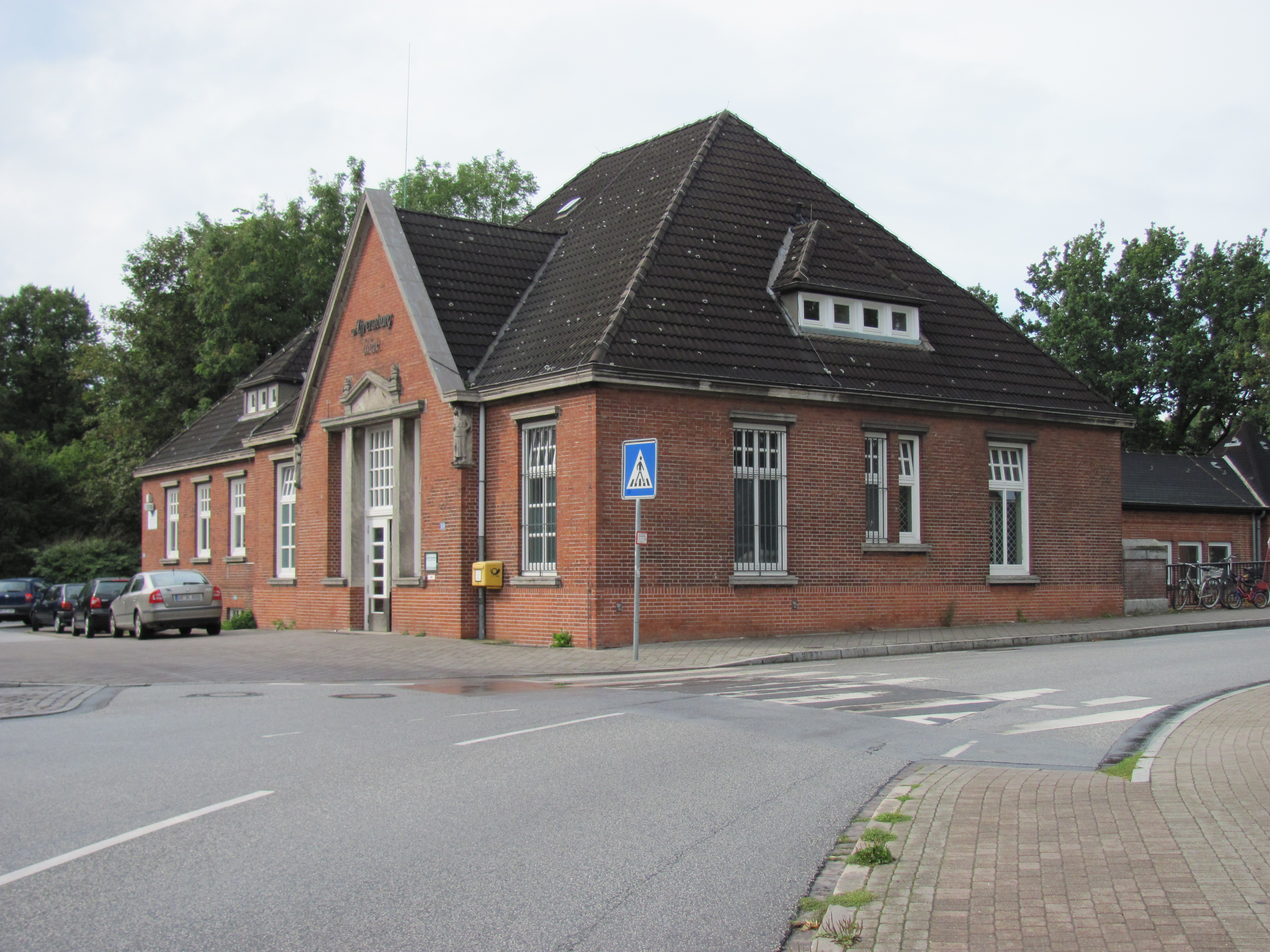 U-Bahn station Ahrensburg West